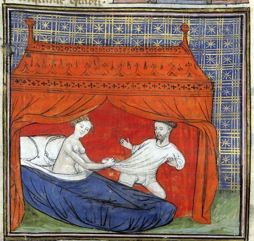 Seduction of Lancelot Le livre de Lancelot du Lac, made ca. 1401-1425 (Bibliothèque nationale de France).